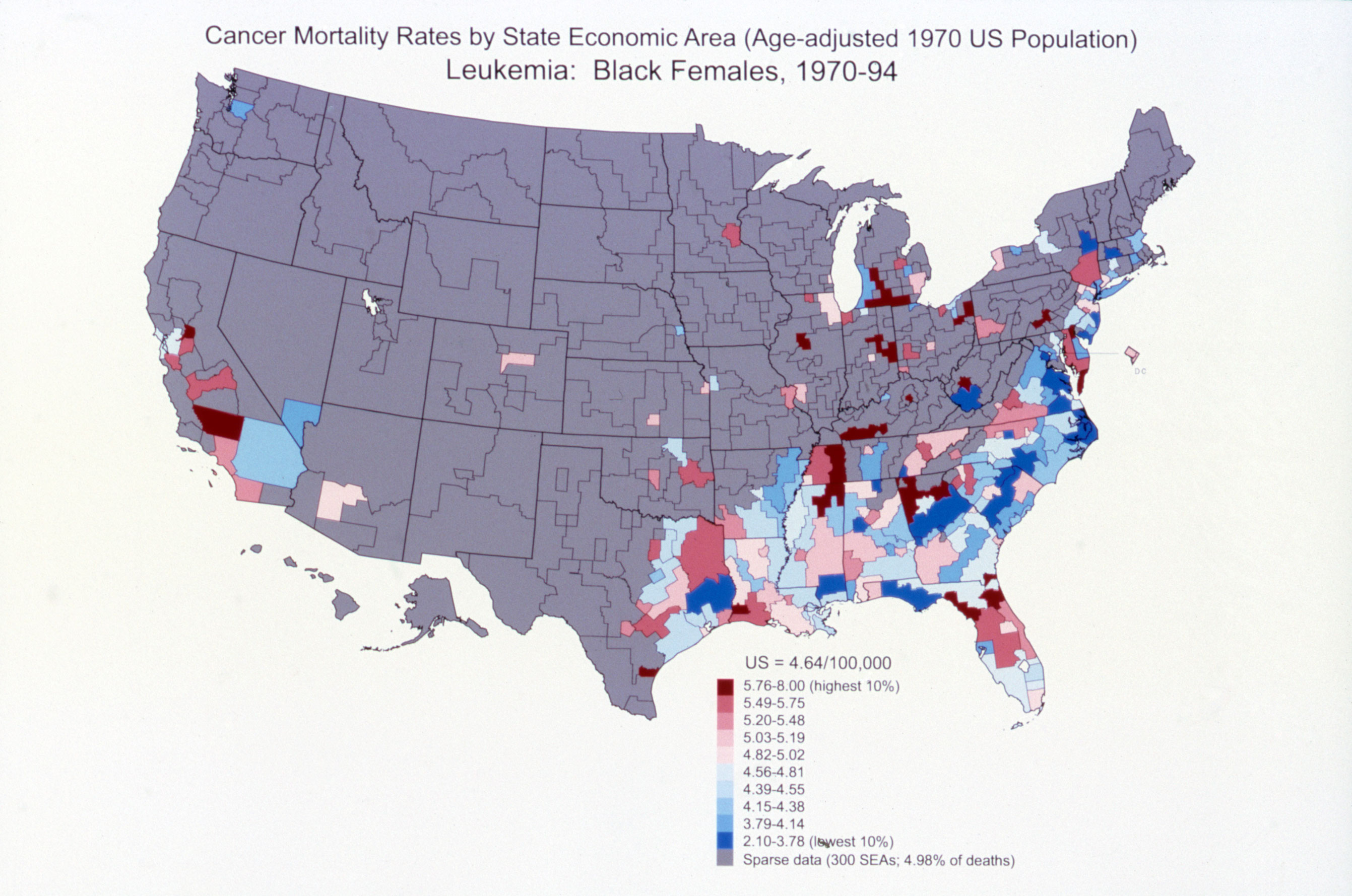 Title Atlas of Cancer Mortality in the U.S. 1950-94 Description "Atlas of Cancer Mortality in the U.S. 1950-94" publication. Topics/Categories Historical, Documents and Publications Type Color, Photo Source National Cancer Institute